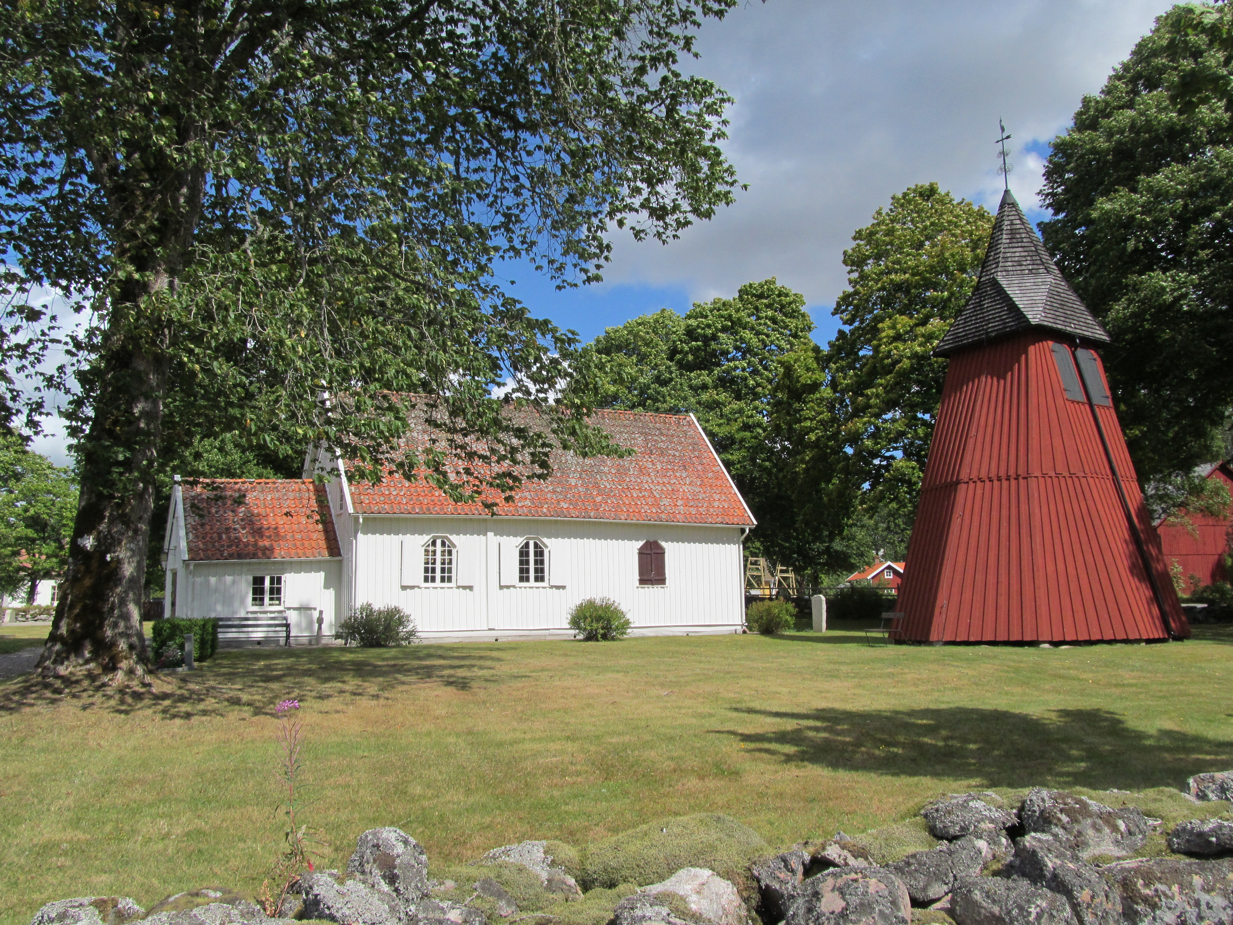 Kyrkås church in Kyrkås Parish, Essunga Municipality, Barne hundred, the Diocese of Skara, Västergötland, Västra Götaland County, Sweden.